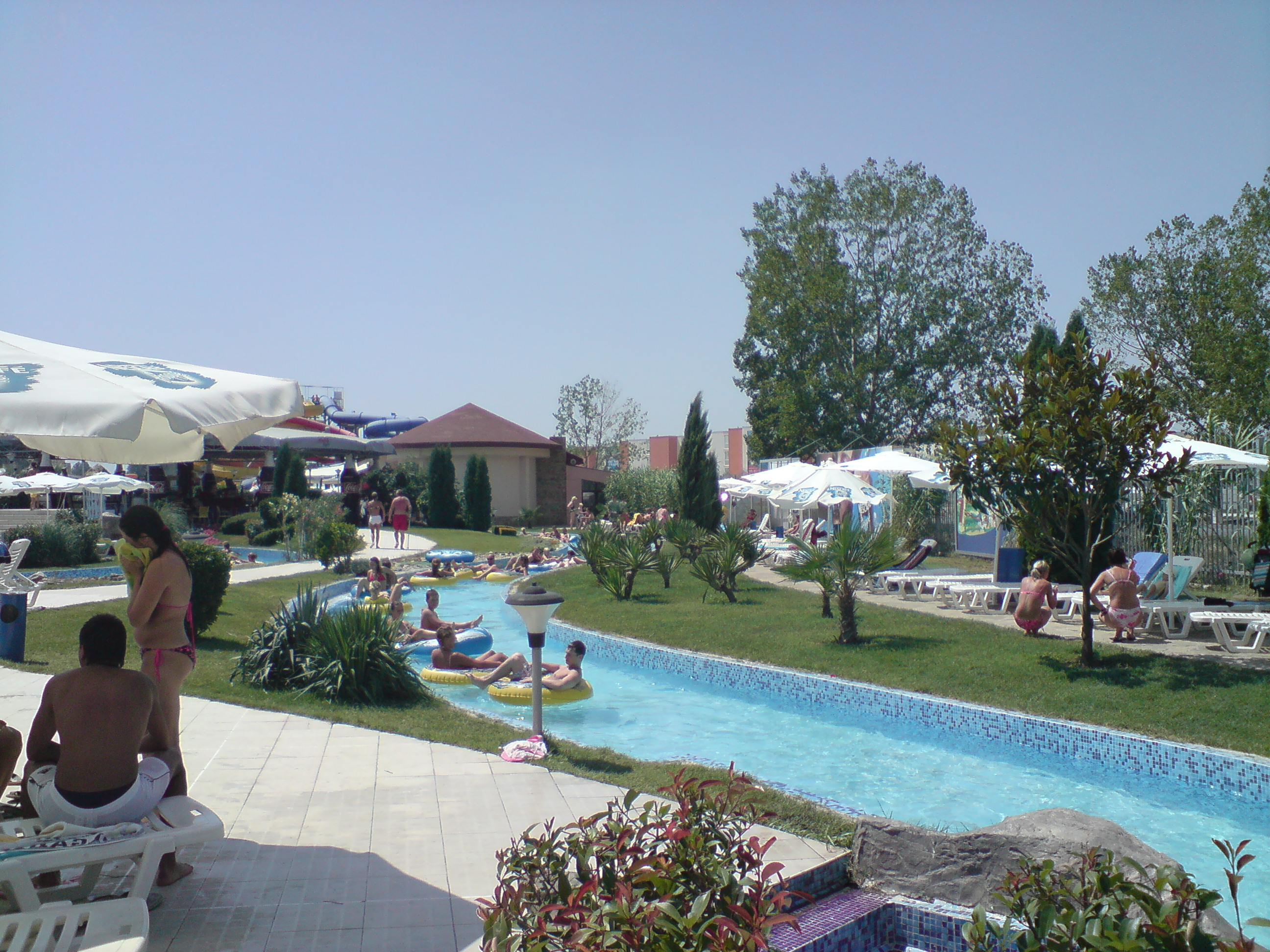 Sunny Beach, Bulgaria, july/august 2008